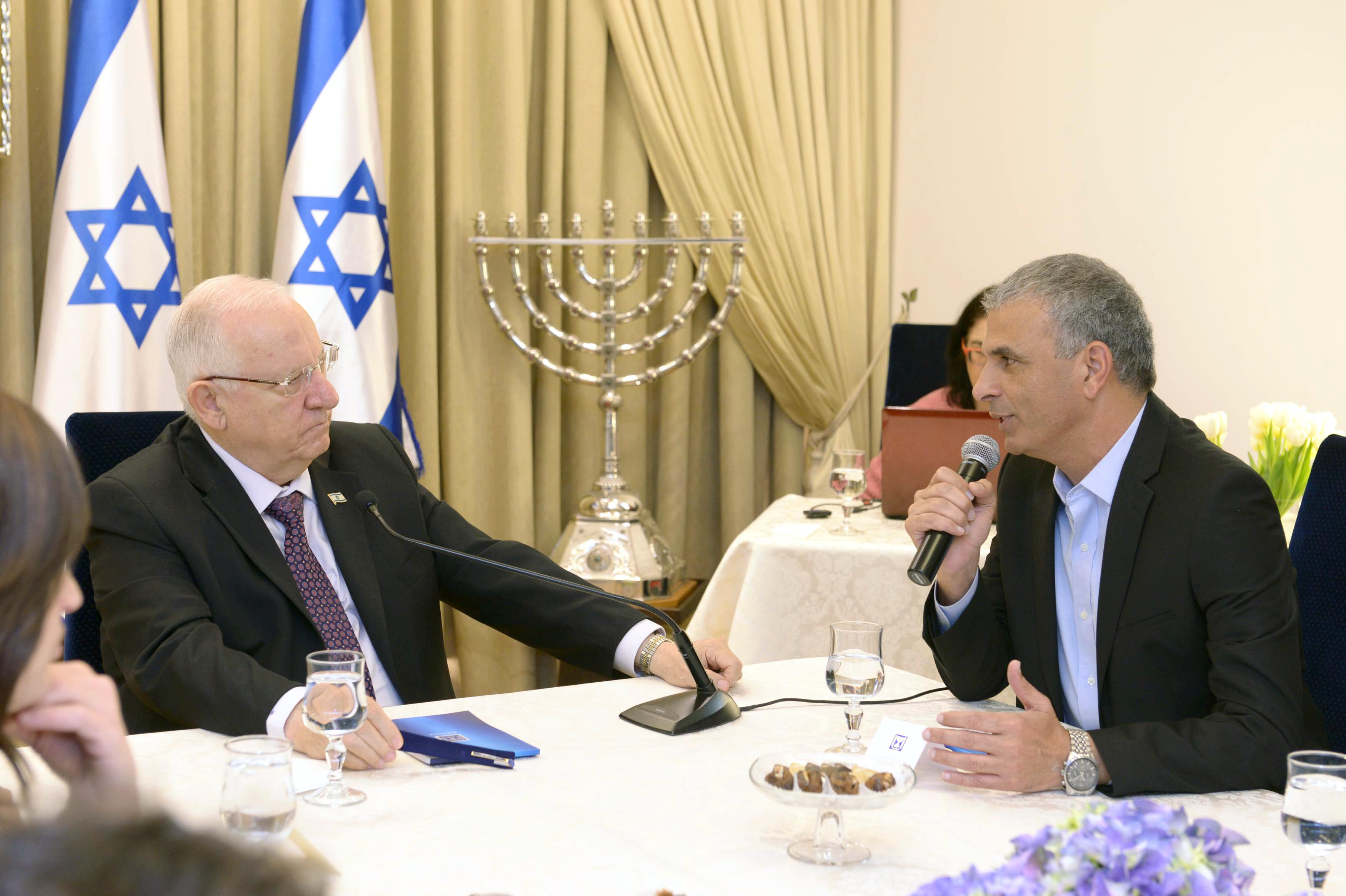 President of Israel Reuven Rivlin (on the left) with Kulanu party chair MK Moshe Kahlon (on the right)